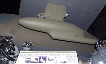 M10 Airplane Smoke Tank on the Douglas A-20 in the World War II Gallery at the National Museum of the U.S. Air Force.